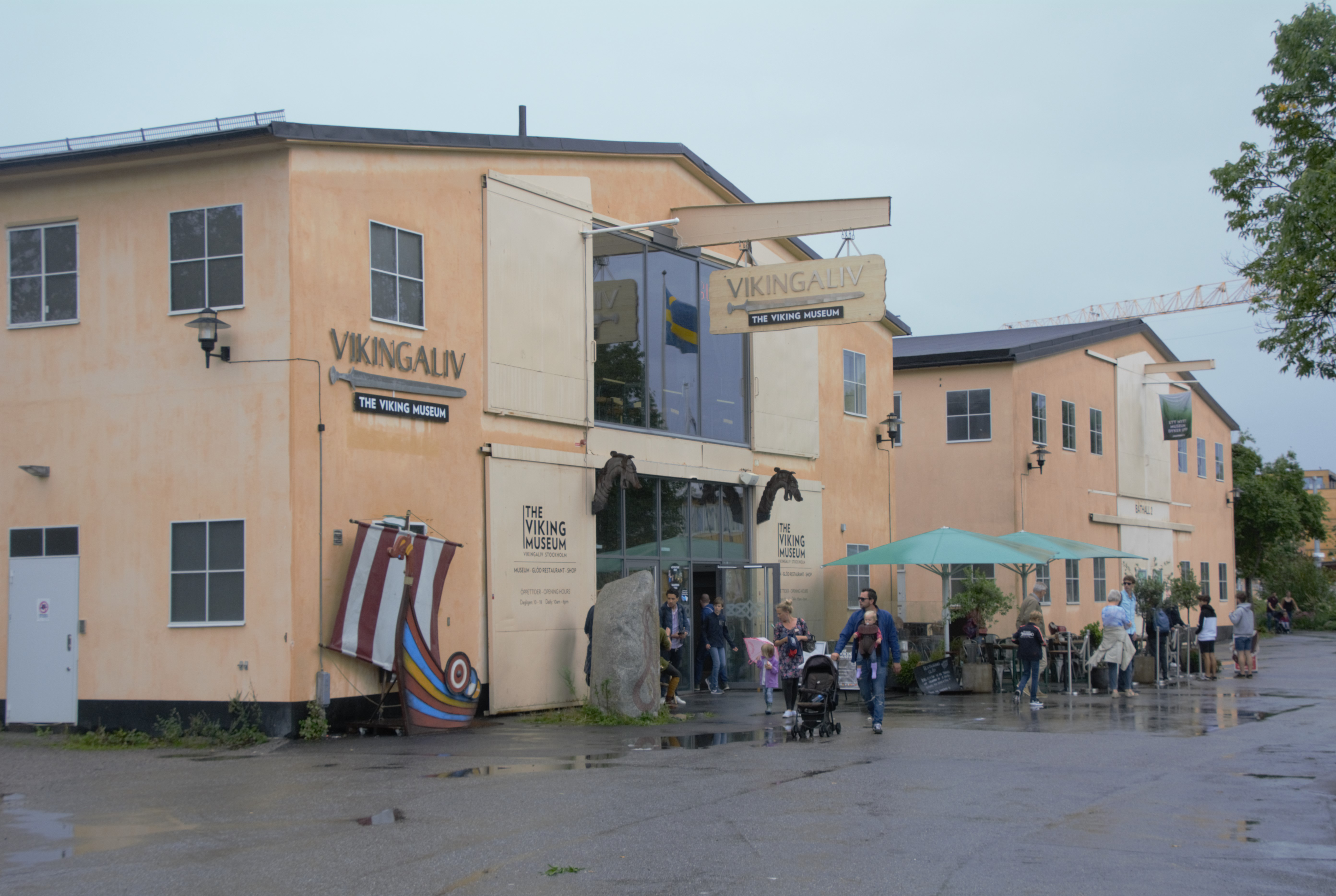 Boat hangars No 1 and No 2 at Djurgården, Stockholm